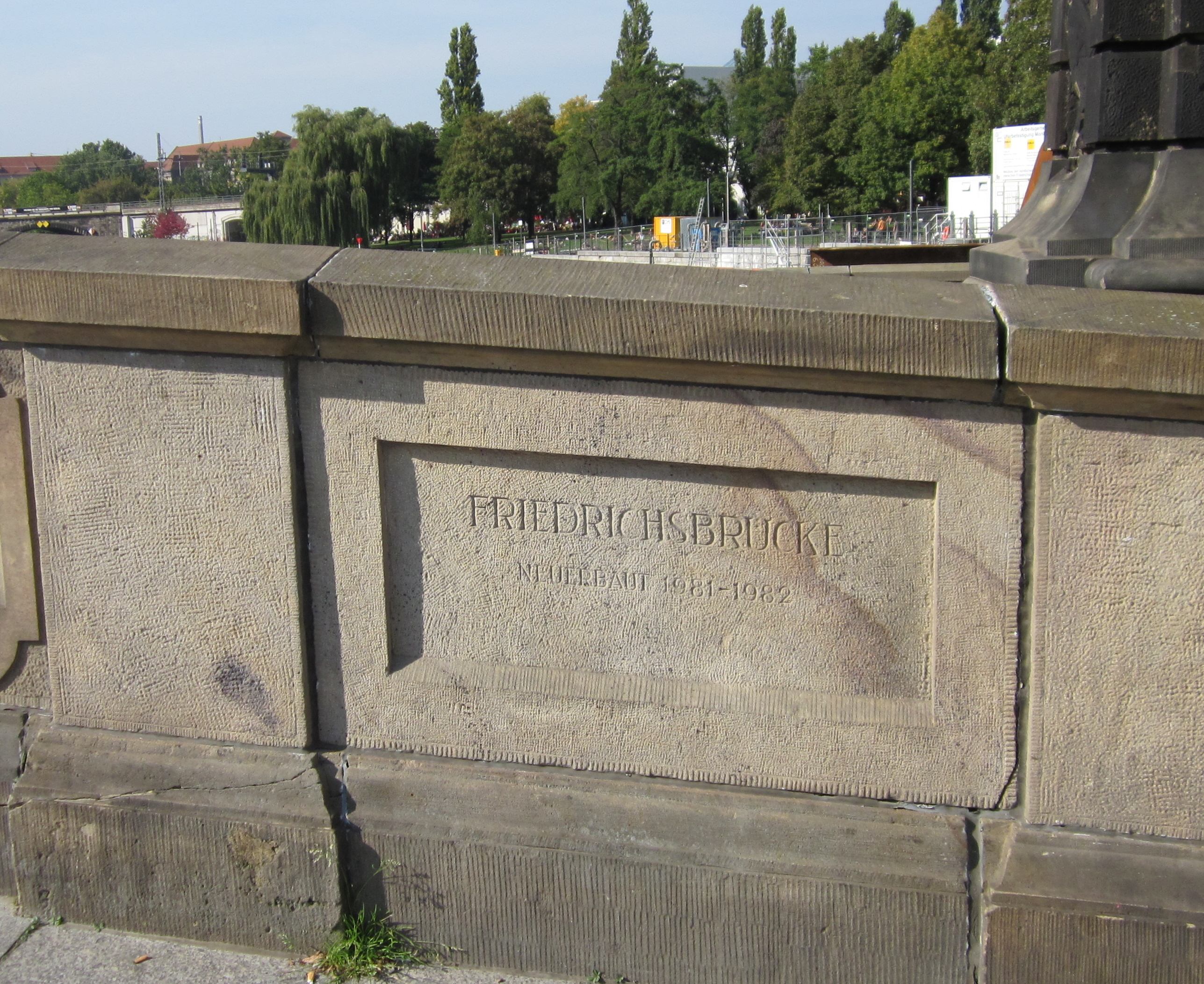 Berlin bridge Friedrichsbrücke showing detail "Friedrichsbrücke Neuerbaut 1981-1982" meaning new build 1981-82